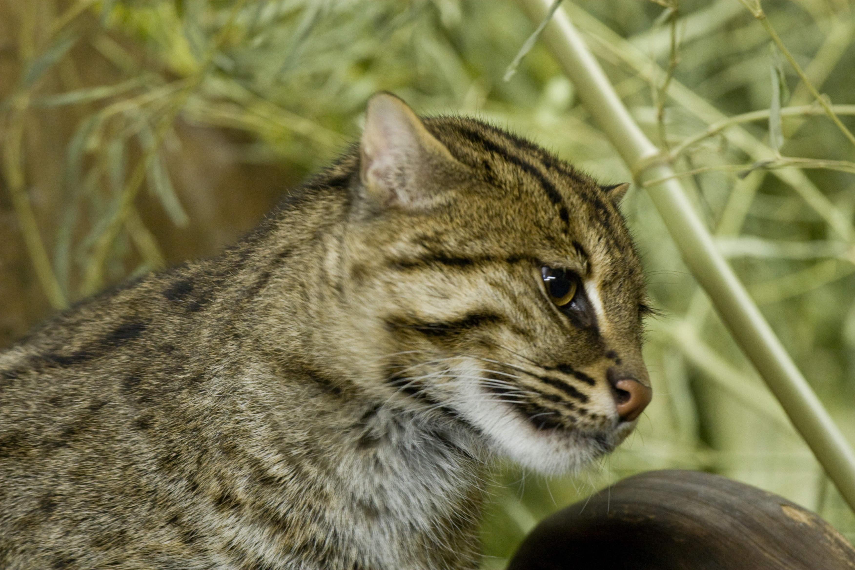 Prionailurus viverrinus at Cincinnati Zoo. Photo by Greg Hume